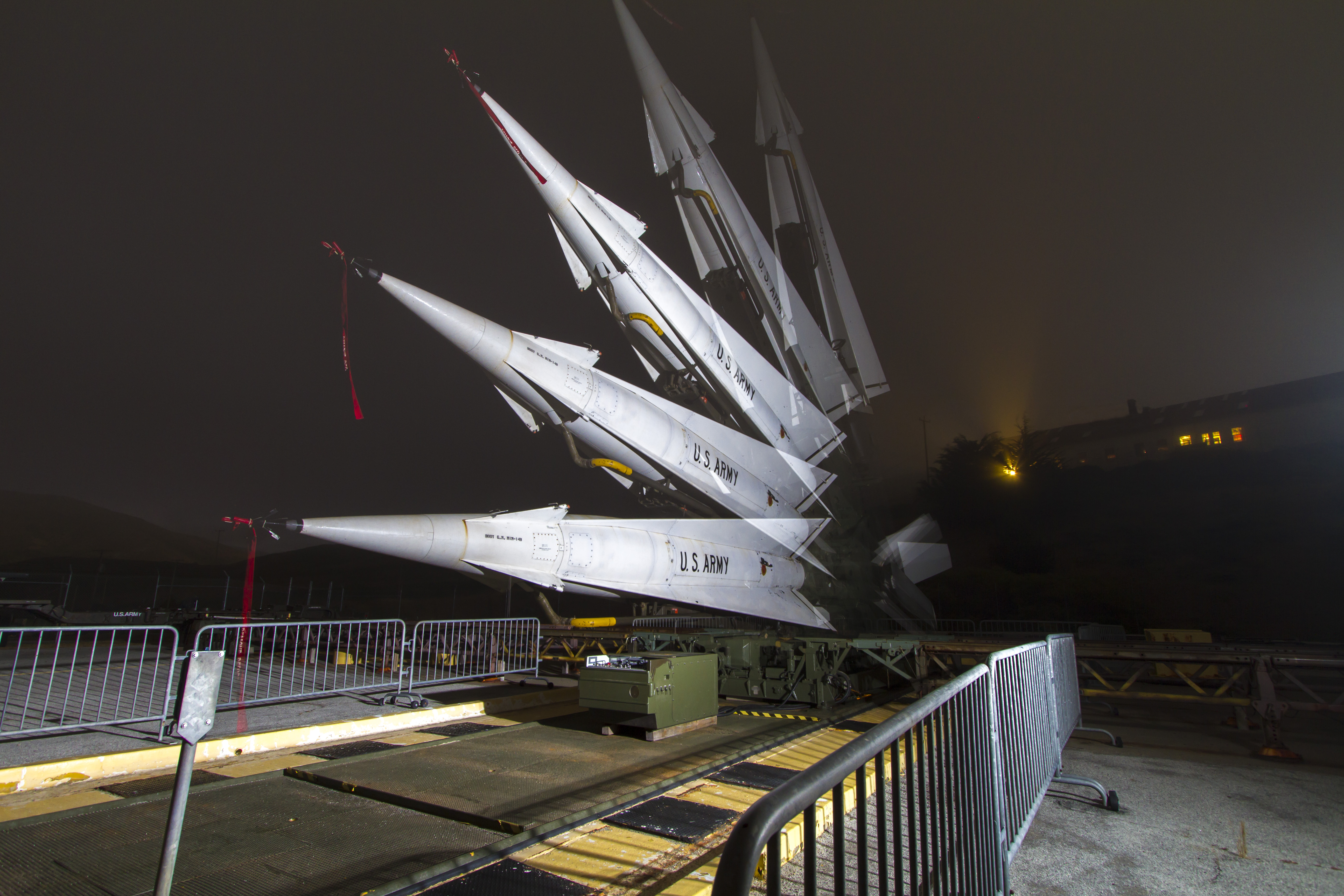 The Nike-Hercules missile on the launchpad. Florian Kainz expertly conceived of and coordinated multiple off-camera light flashes during this single long-exposure shot. This image is a United States Government Work; it is in the public domain. Photographer: Bhautik Joshi, 2012